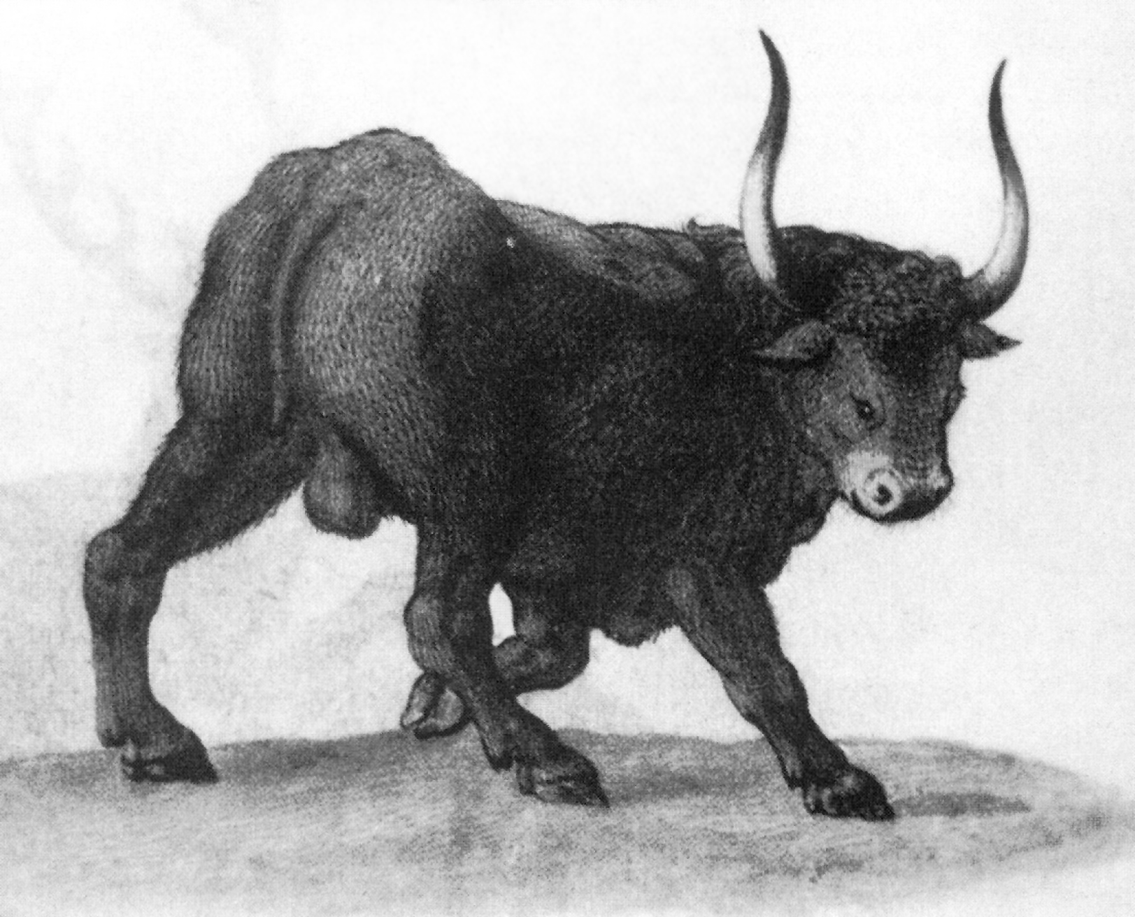 The illustration was made for an entry which seems to be a description of the wisent, but the image instead depicts an aurochs-like animal. The two were often confused.